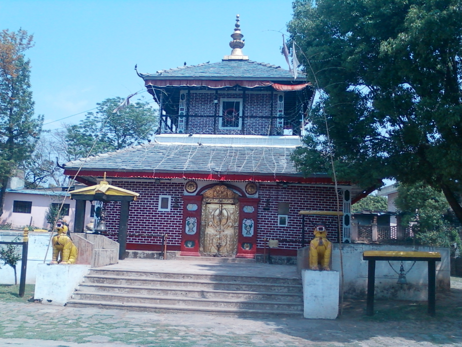 Built by Ujir Singh Thapa in 1814 AD to mark the victory over colonial British-India forces, the temple is a small structure but holds immense religions importance. It is said that the original structure was remarkably bigger and more beautiful and it has undergone many physical adjustments, most recently after the great earthquake of 1934. Every year in the month of August, a chariot procession of deities is taken out throughout the town with military honor to observe the historic battle.